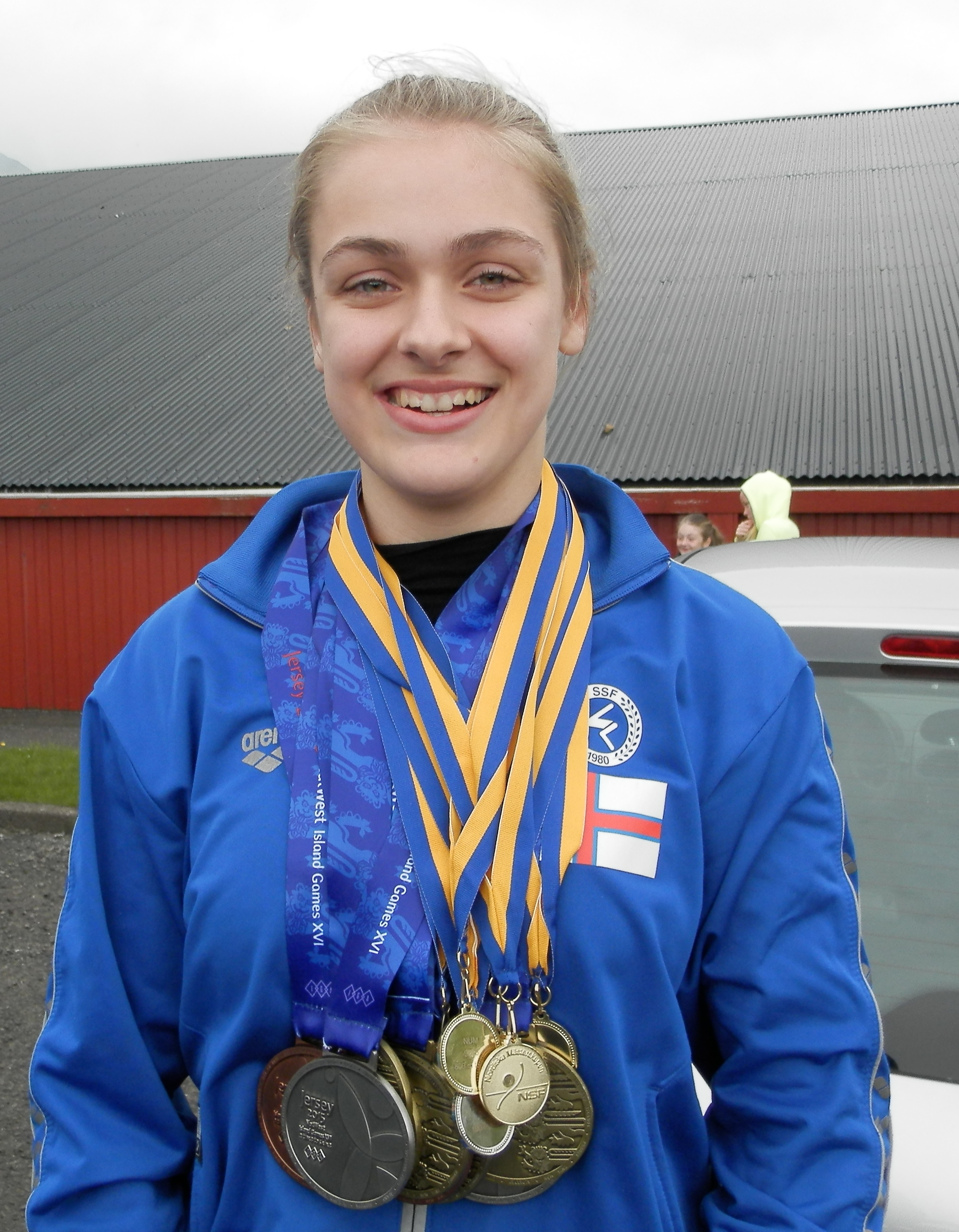 Sára Ryggshamar Nysted is a Faroese swimmer.